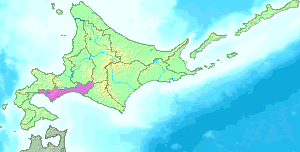 Iburi shinkokyoku subpref